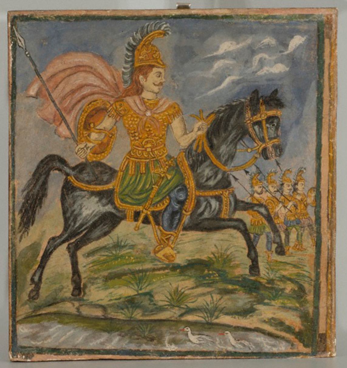 Painting 16,4x1,26m, oel on canvas: Megas Alexandros, Alexandre Le Grande, Alexander the Great National Historical Museum, Athens.